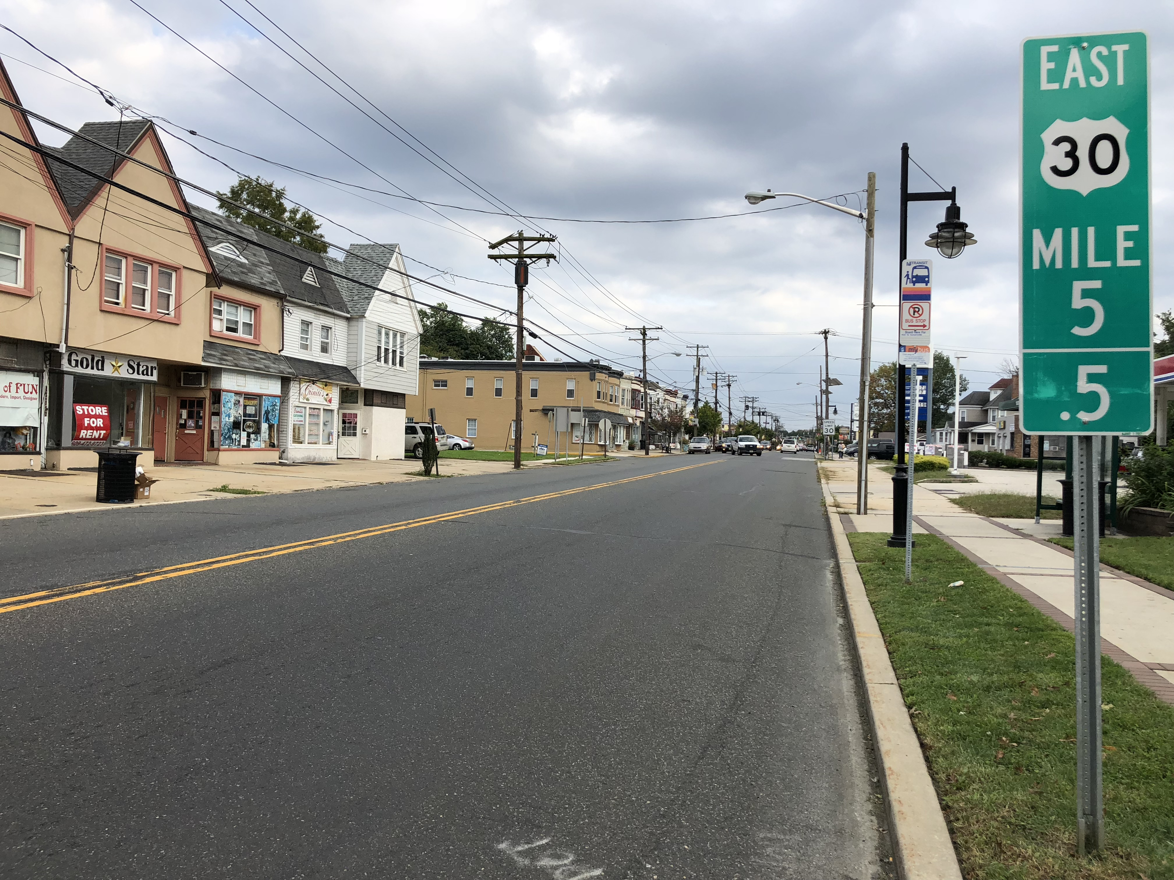 View east along U.S. Route 30 (White Horse Pike) just east of Camden County Route 649 (West Clinton Avenue) in Oaklyn, Camden County, New Jersey